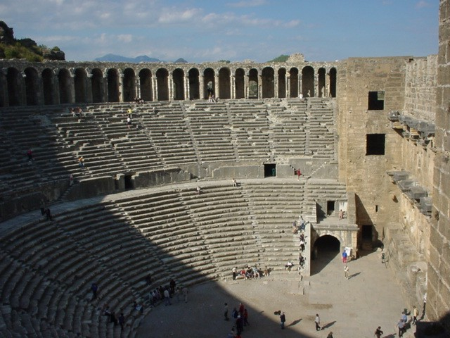 The theatre Aspendos.